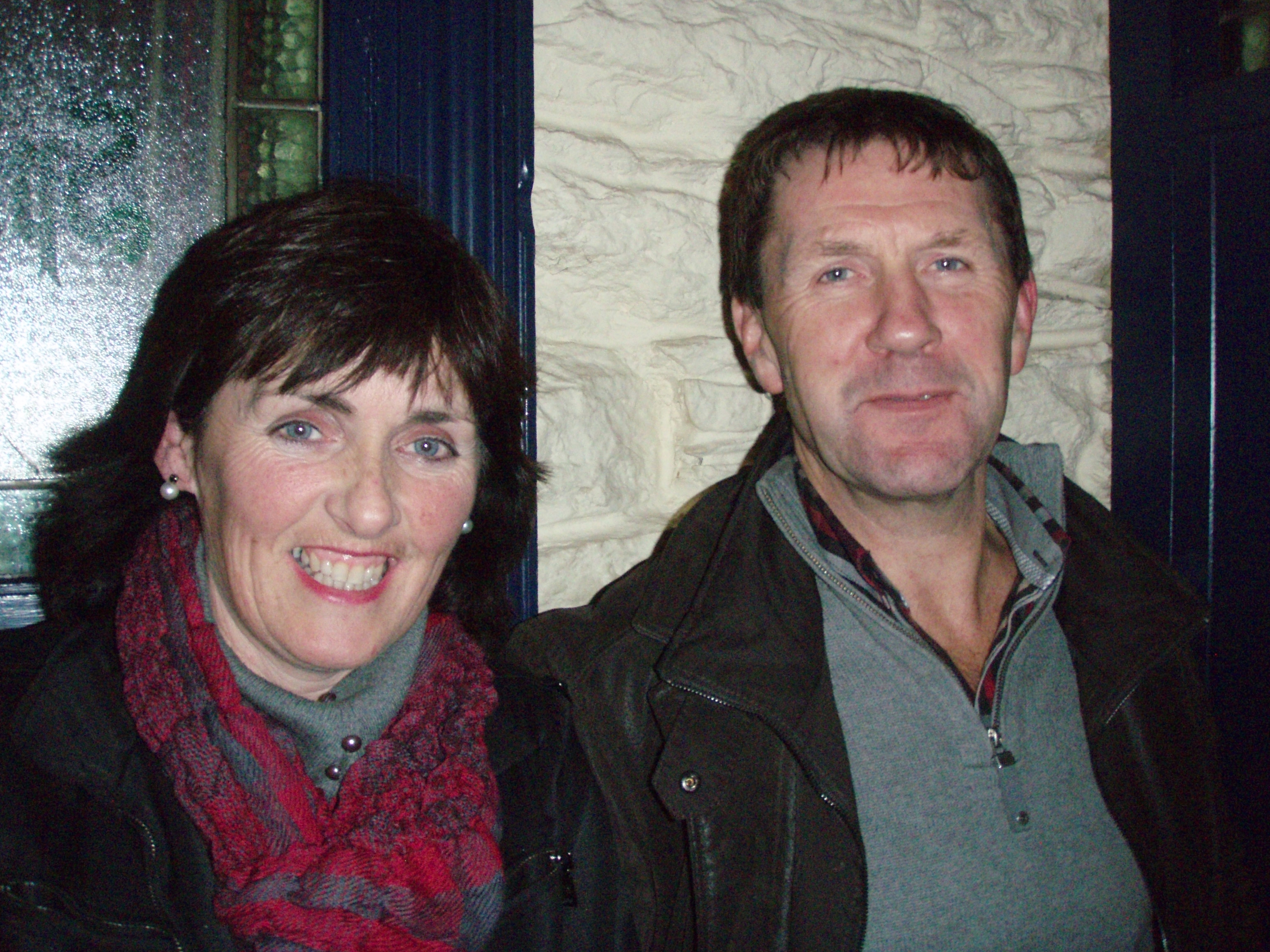 Jack O'Connor and his wife, Bridie, relax in The Villa Maria Hotel, Waterville, Co Kerry. Bridie is one of eight sisters from The Glen, Ballinskelligs. They joined with Jack's brother, Mike, to create a village in Killianliath, Dromid, when they built The Inny Tavern. But the O'Connor family later settled in Bridie's home place in The Glen.